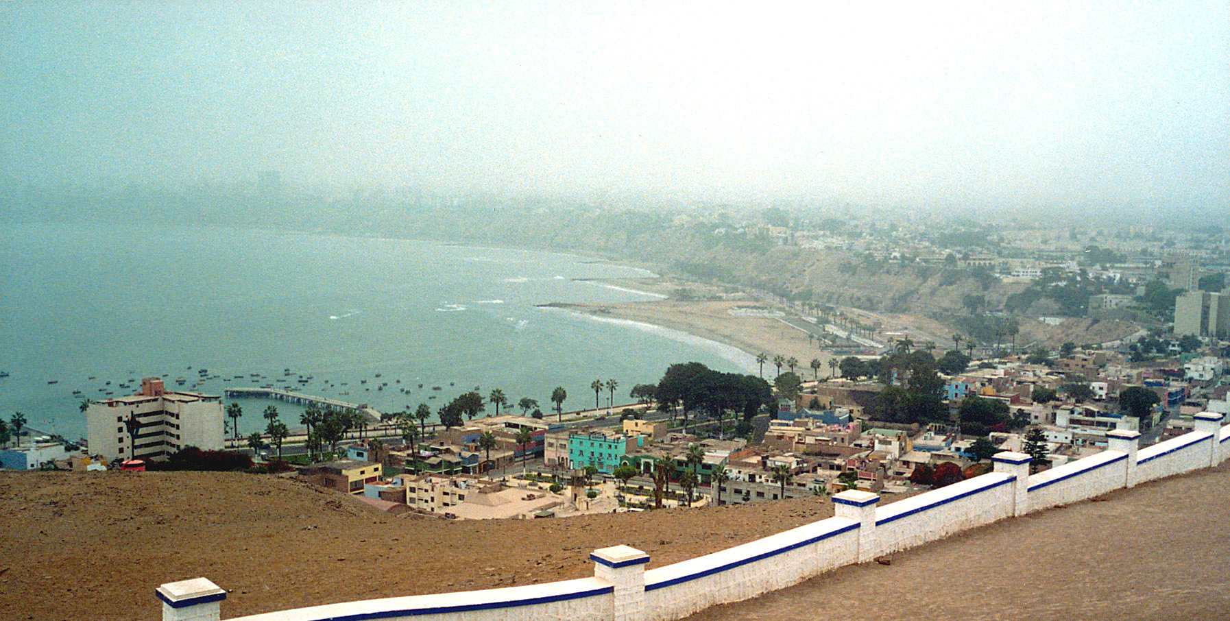 View from Morro Solar over Chorrillos-Costa Verde. Lima, Peru.